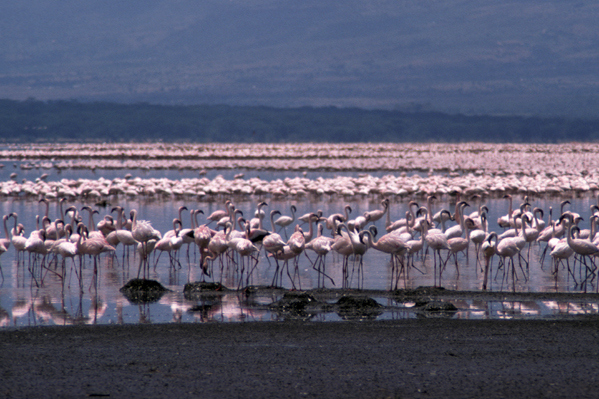 Lesser Flamingos (Phoenicopterus minor) nesting on the shoreline of Lake Bogoria in Kenya, Africa in 1988.